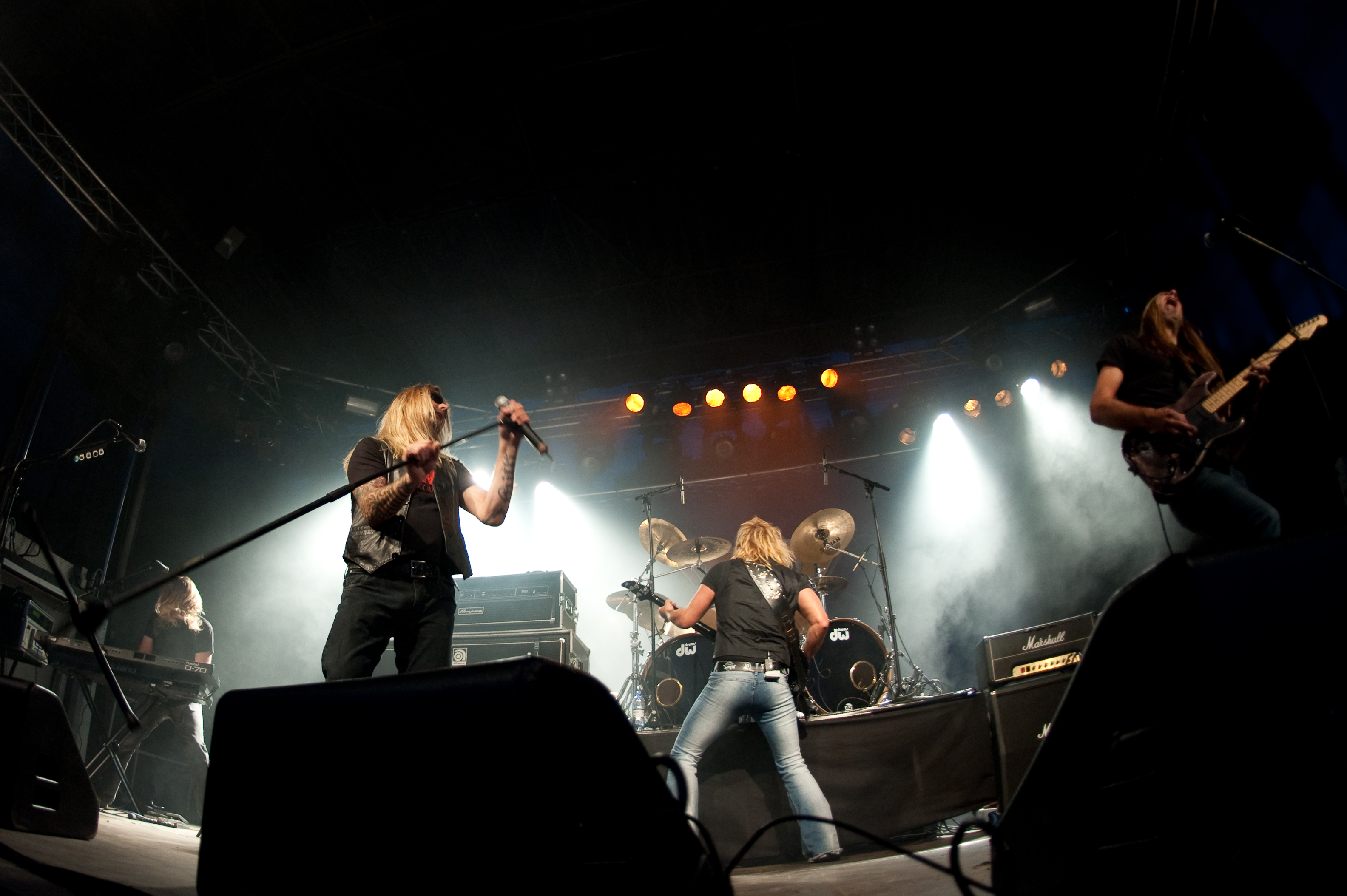 Norwegian hardrock band TNT in 2009